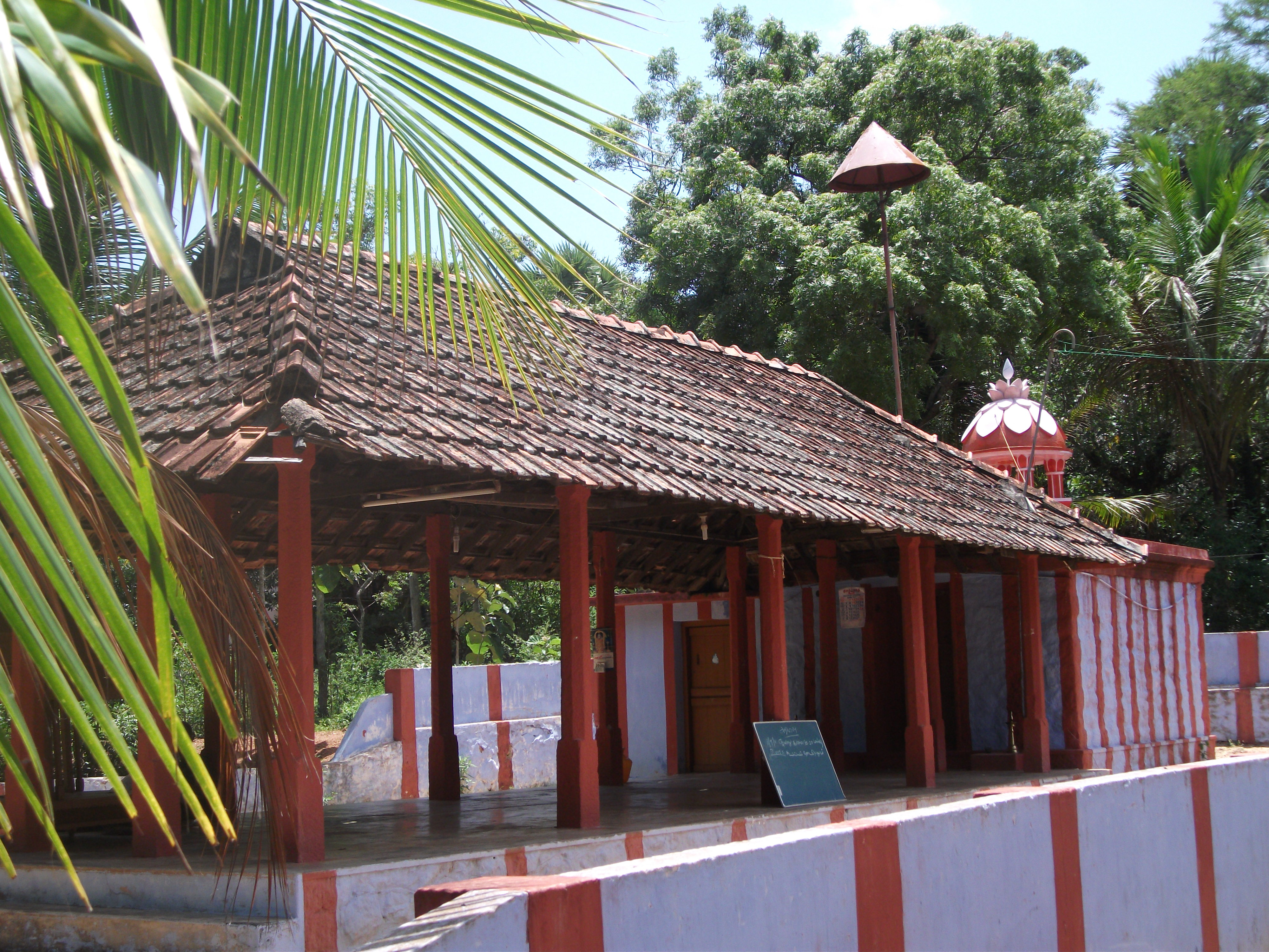 Greatest Village narth sarel in the southern most Indian state of Tamil Nadu and a municipality and administrative headquarters of Kanyakumari District.